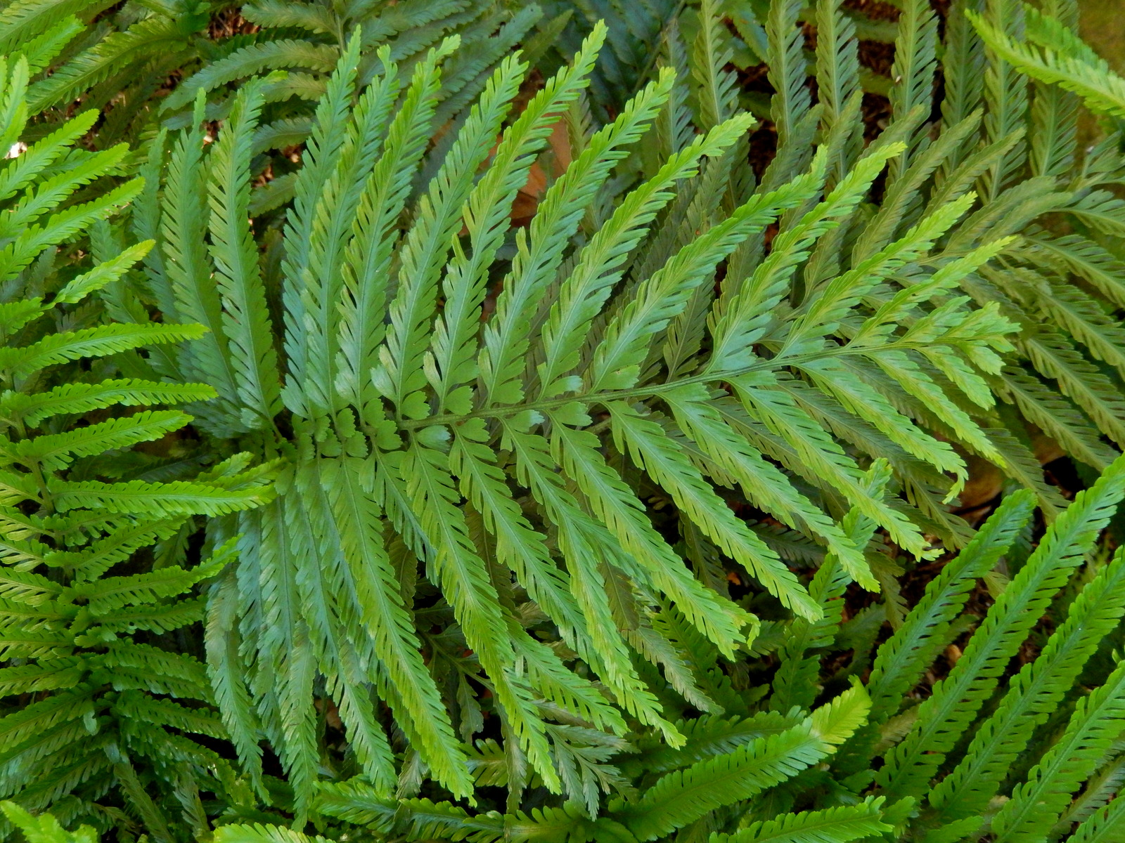 Asplenium surrogatum Royal Botanic Gardens Sydney